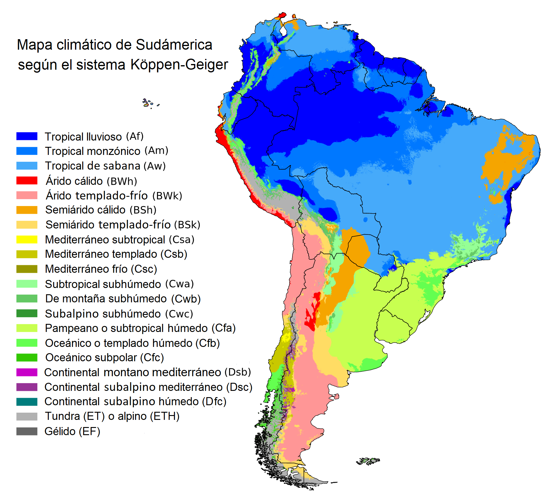 Köppen–Geiger climate classification map for South America